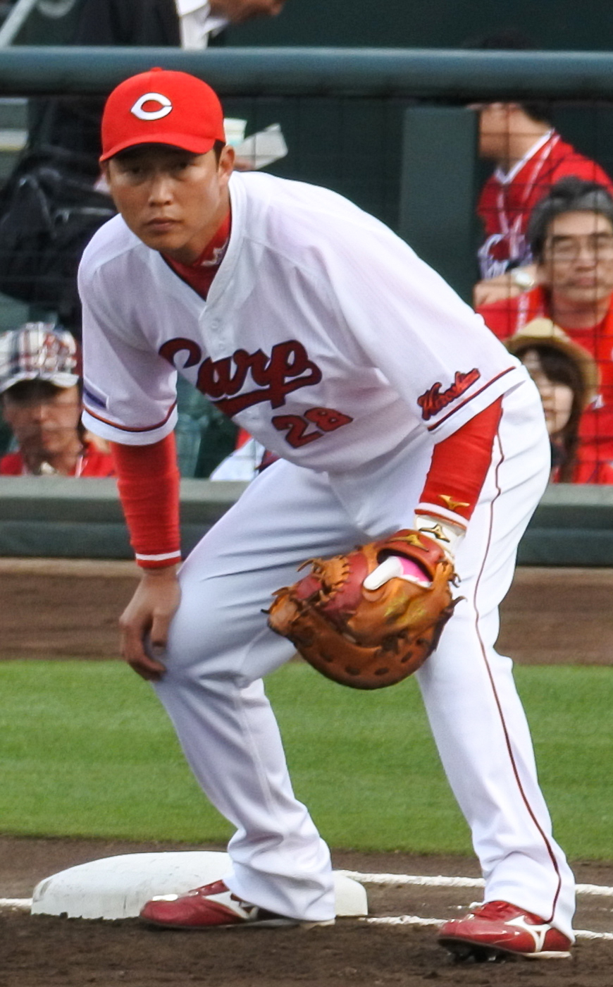 Takahiro Arai, infielder of the Hiroshima Toyo Carp, at MAZDA Zoom-Zoom Stadium Hiroshima.